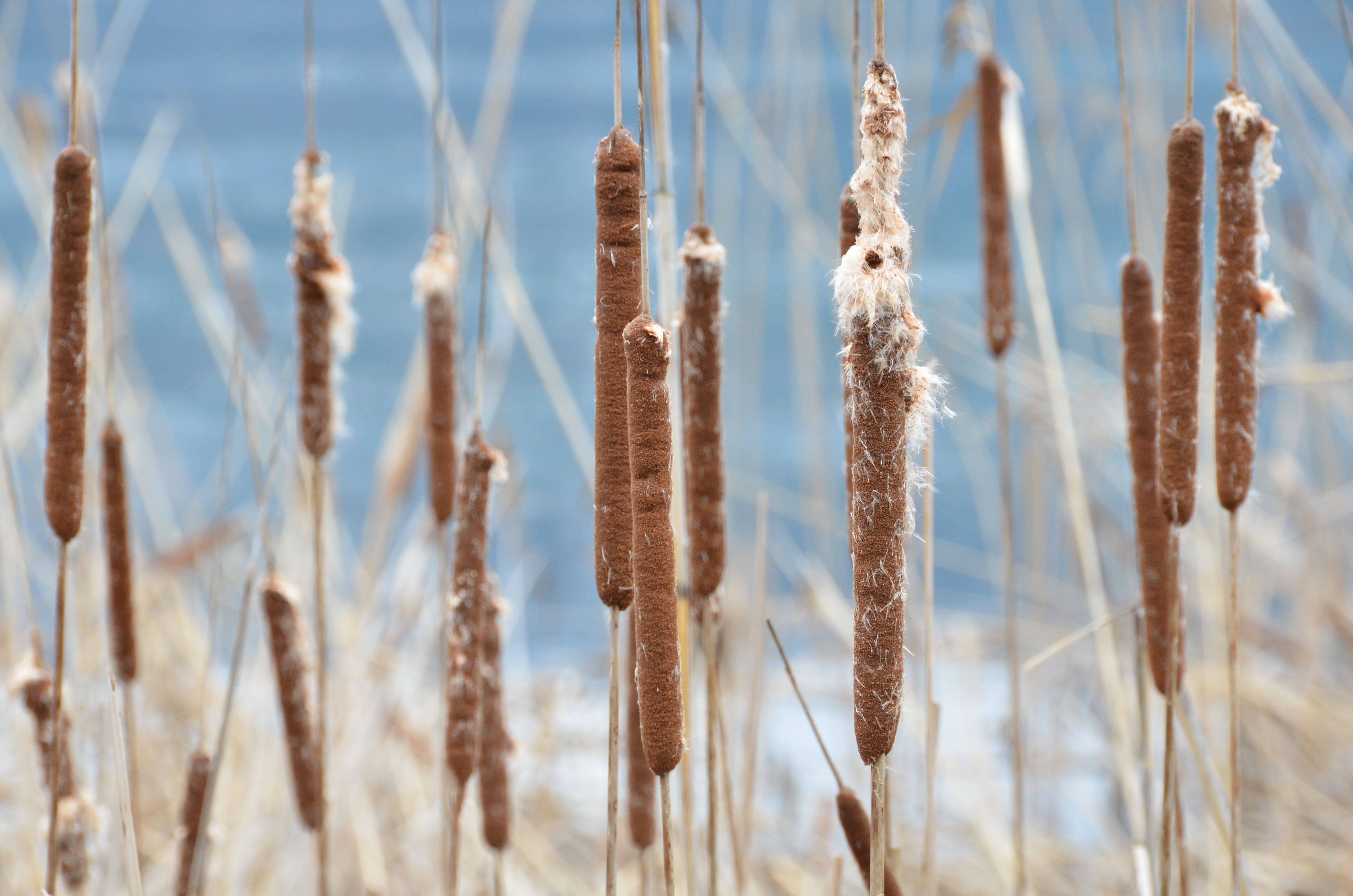 Lesser Bulrush (Typha angustifolia) on Johannaweg, municipality Poertschach on the Lake Woerth, district Klagenfurt Land, Carinthia / Austria / EU